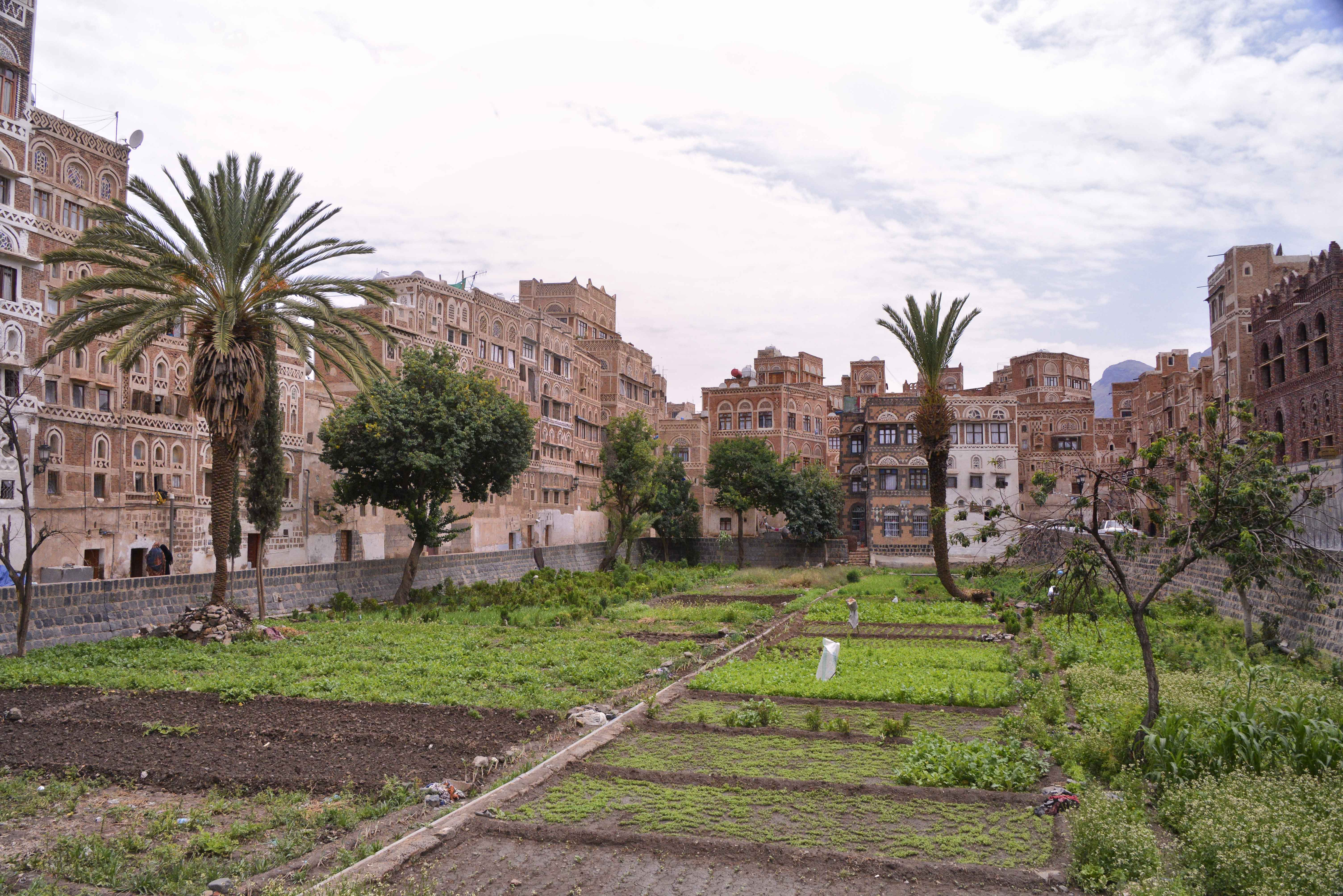 Public Garden in Sana'a